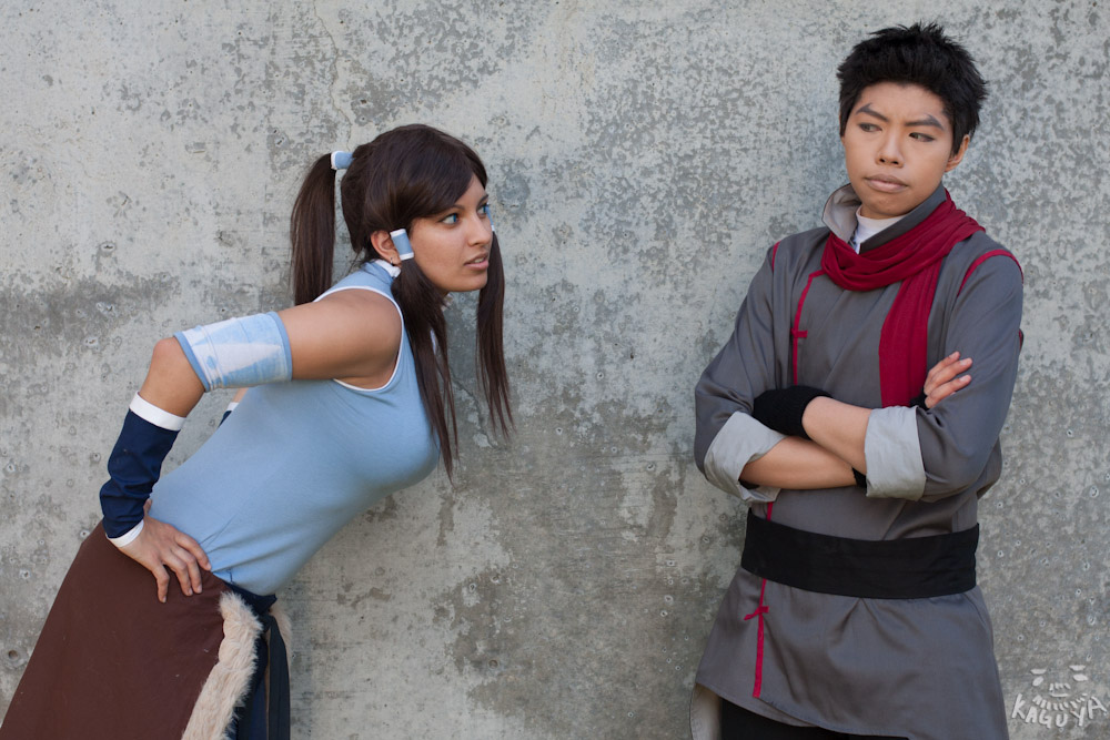 Two fans cosplaying the characters Korra and Mako from the animated television series The Legend of Korra at Anime Expo 2012.